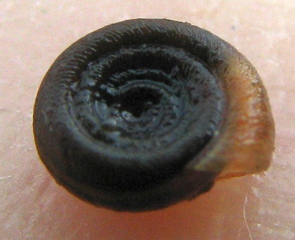 Bathyomphalus contortus from a small lake